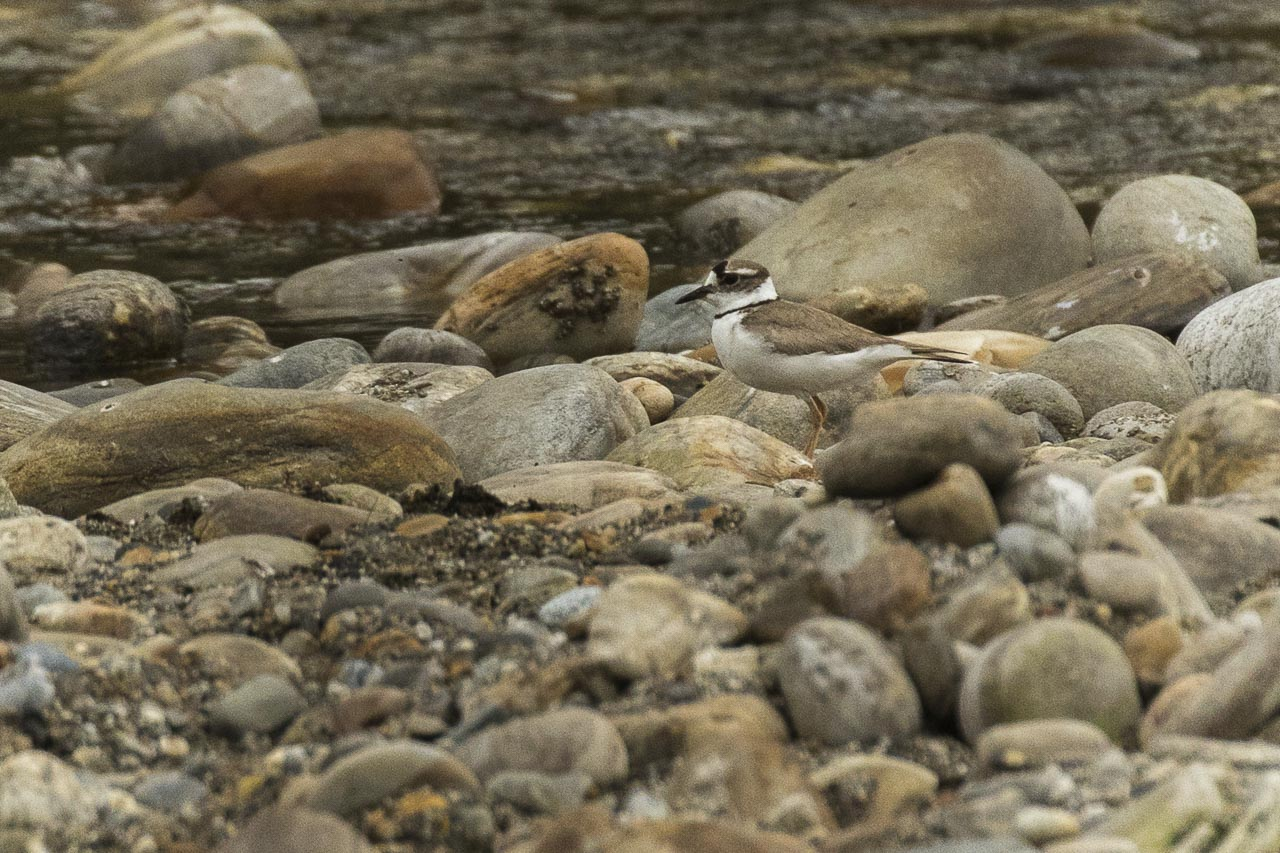 Long-billed Plover - Arunachal Pradesh - IndiaFJ0A8797